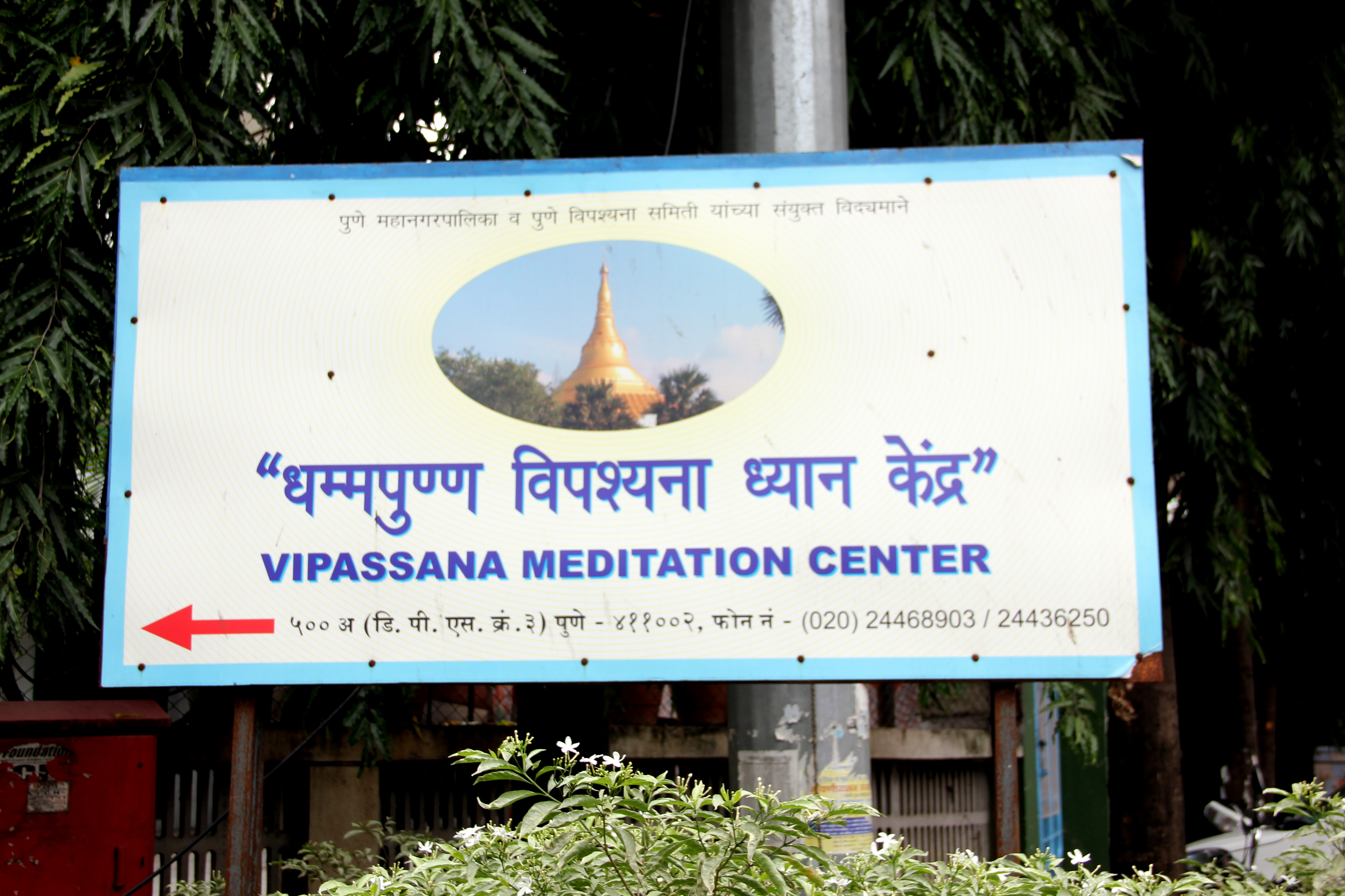 Vipasana Meditation Centre 1